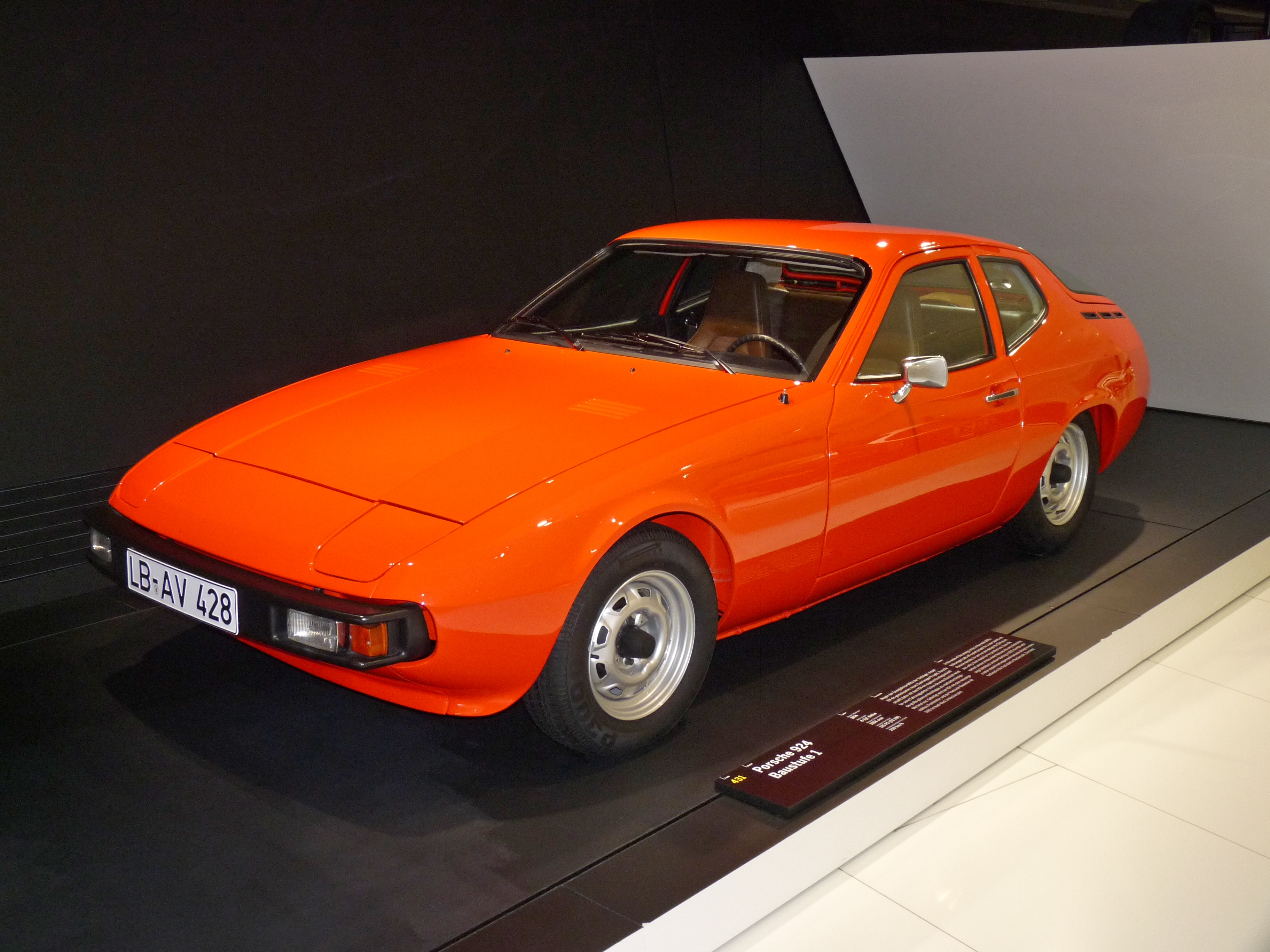 see filename for despcription - seen at PORSCHE MUSEUM in Stuttgart, Germany